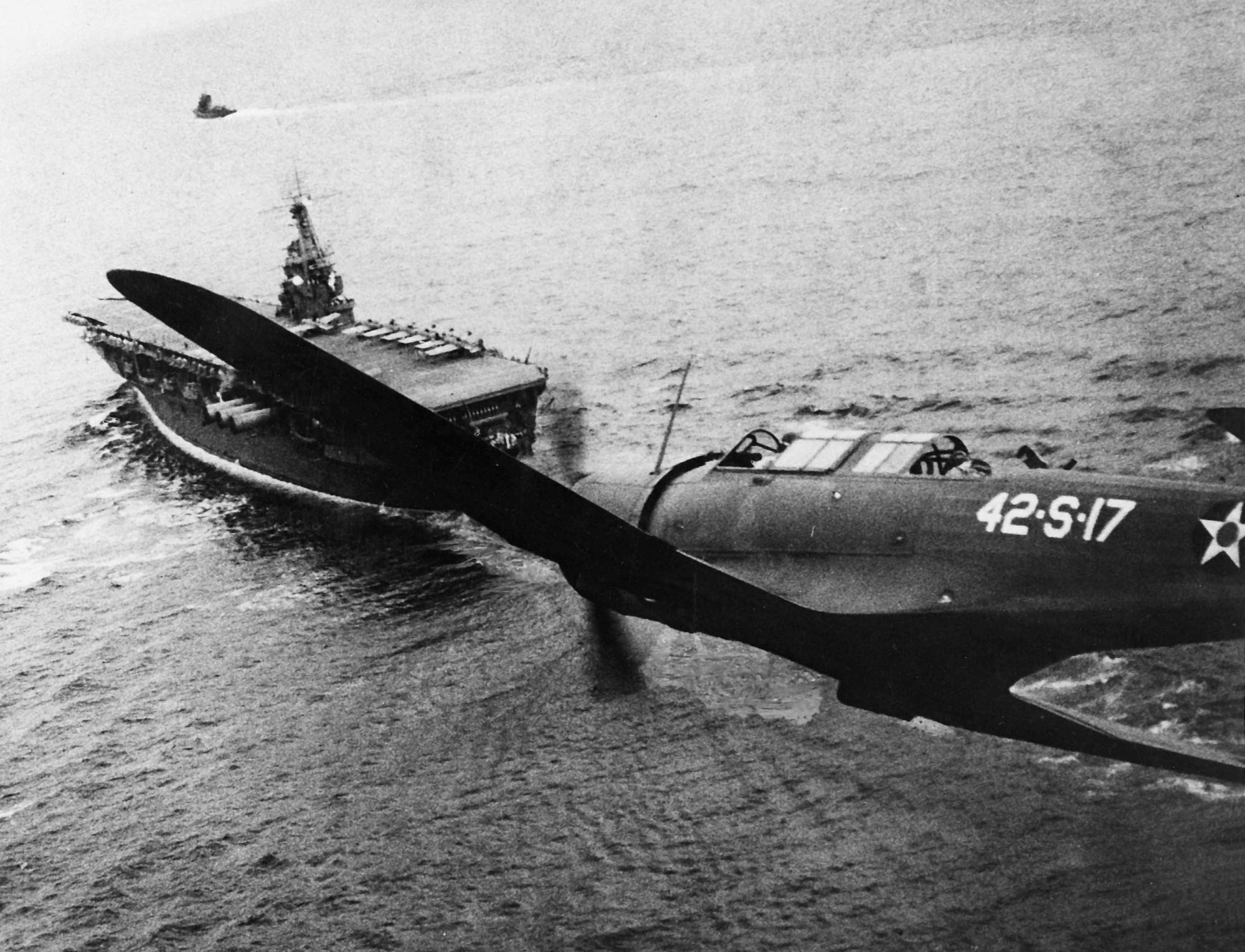 A U.S. Navy Vought SB2U Vindicator (42-S-17) of Scouting Squadron 42 (VS-42) returning to the aircraft carrier USS Ranger (CV-4) on 4 December 1941. Ranger was escorting a convoy in the Atlantic.